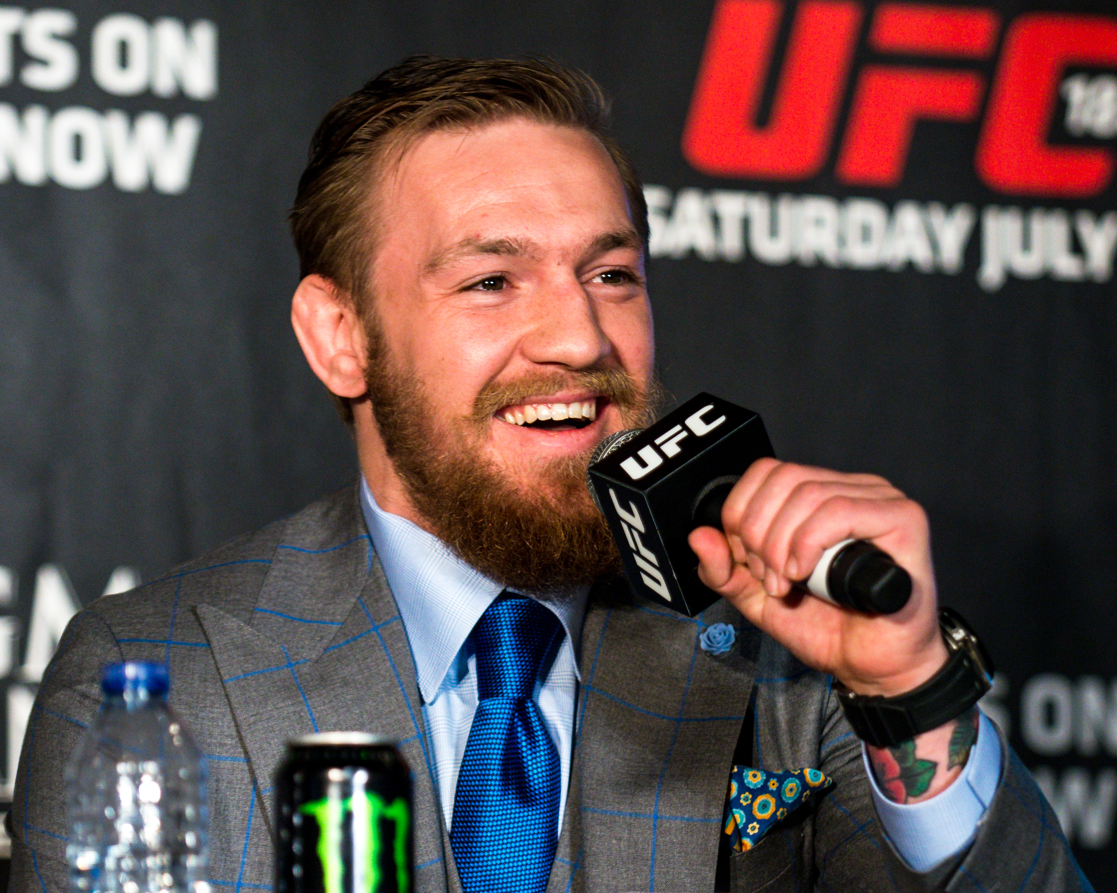 UFC 189 World Tour Aldo vs. McGregor London 2015